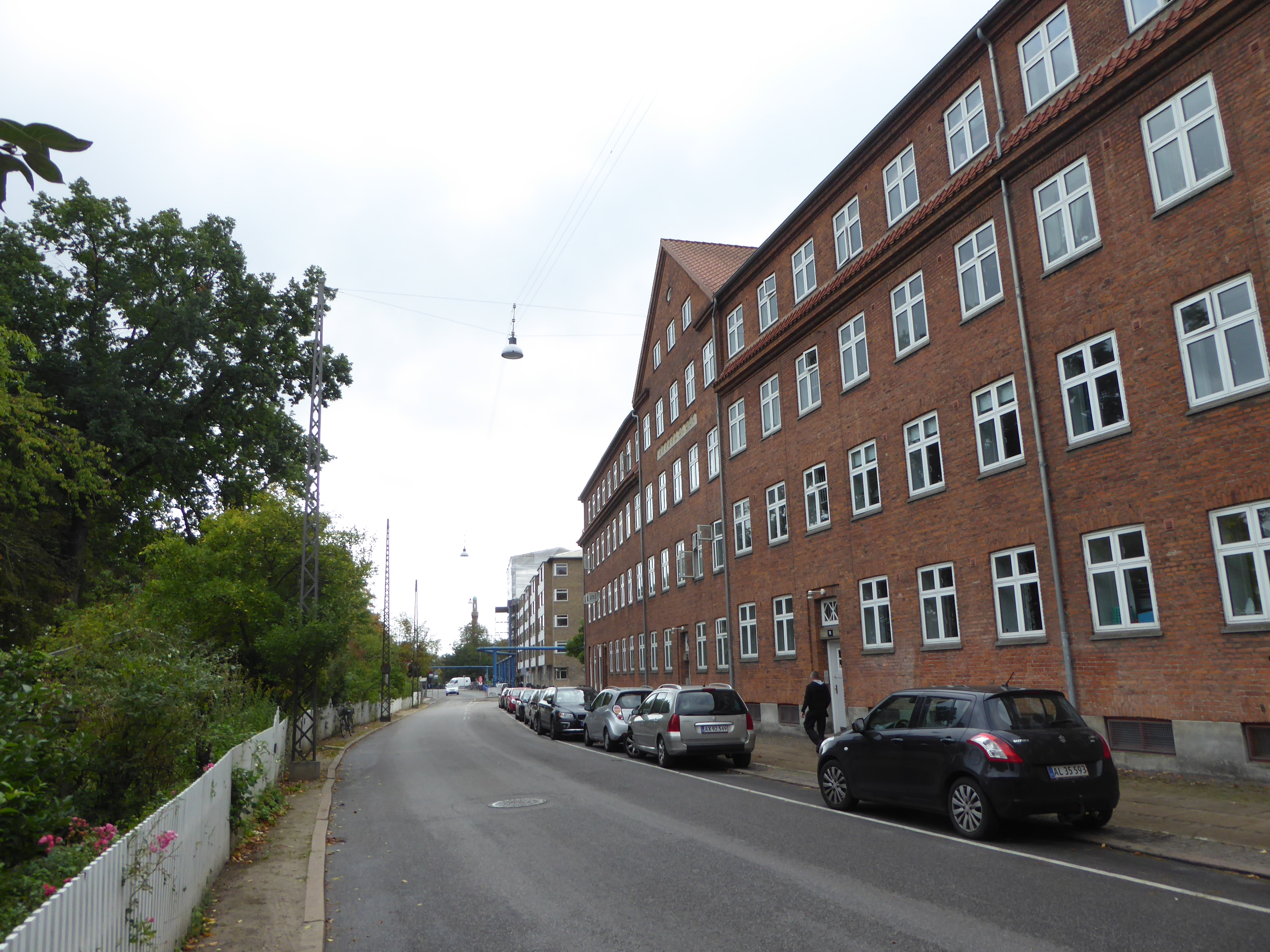 The street Sibeliusgade in Østerbro in Copenhagen.